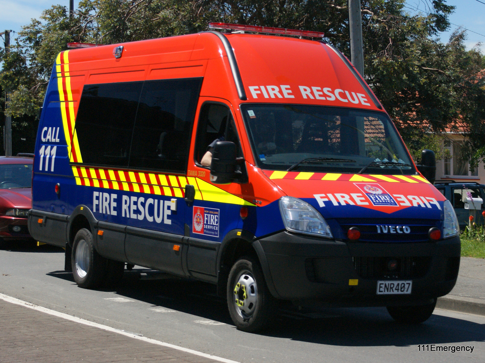 Tawa LRV Iveco Fire Appliance